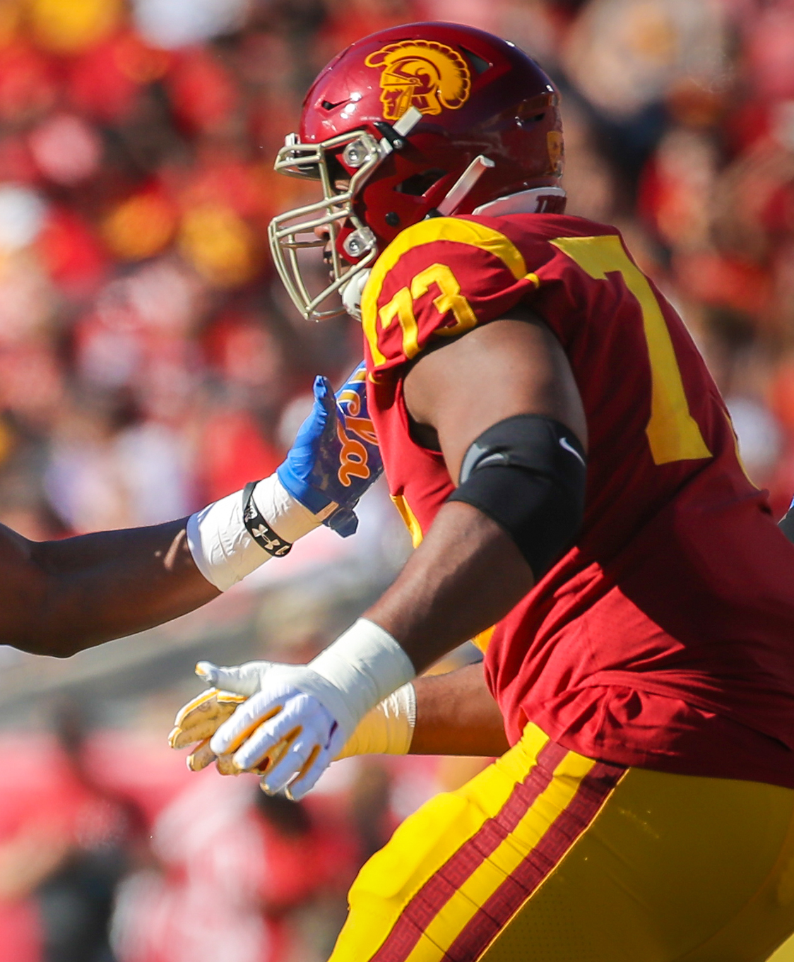 UCLA Bruins defensive lineman Osa Odighizuwa (92) rushes on the edge against USC Trojans offensive tackle Austin Jackson (73); UCLA at USC. November 23, 2019, Los Angeles, CA